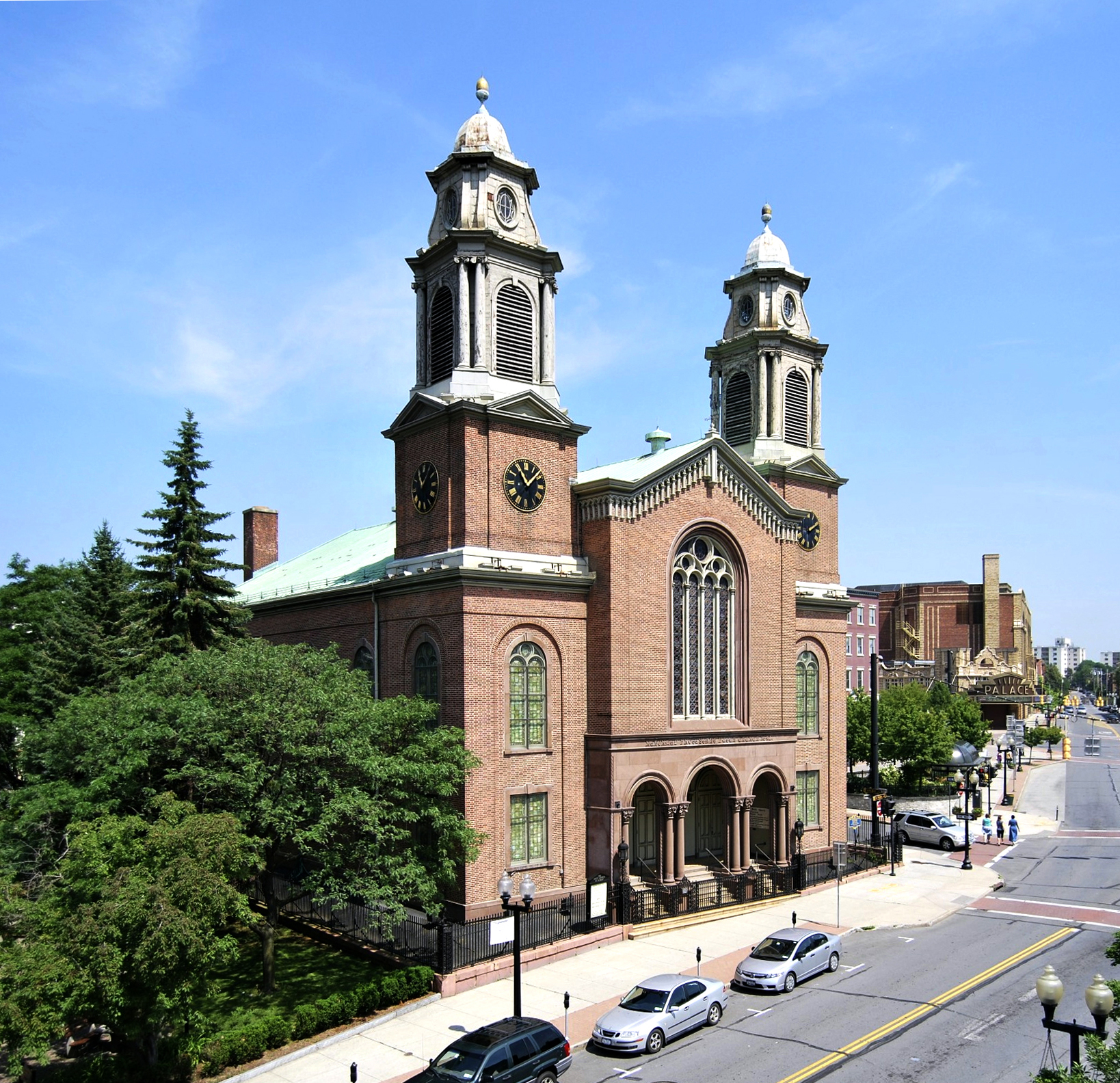 First Church in Albany on North Pearl Street in Albany, New York United States. Built in the period of 1797-1799, it was added to the National Register of Historic Places in 1974.